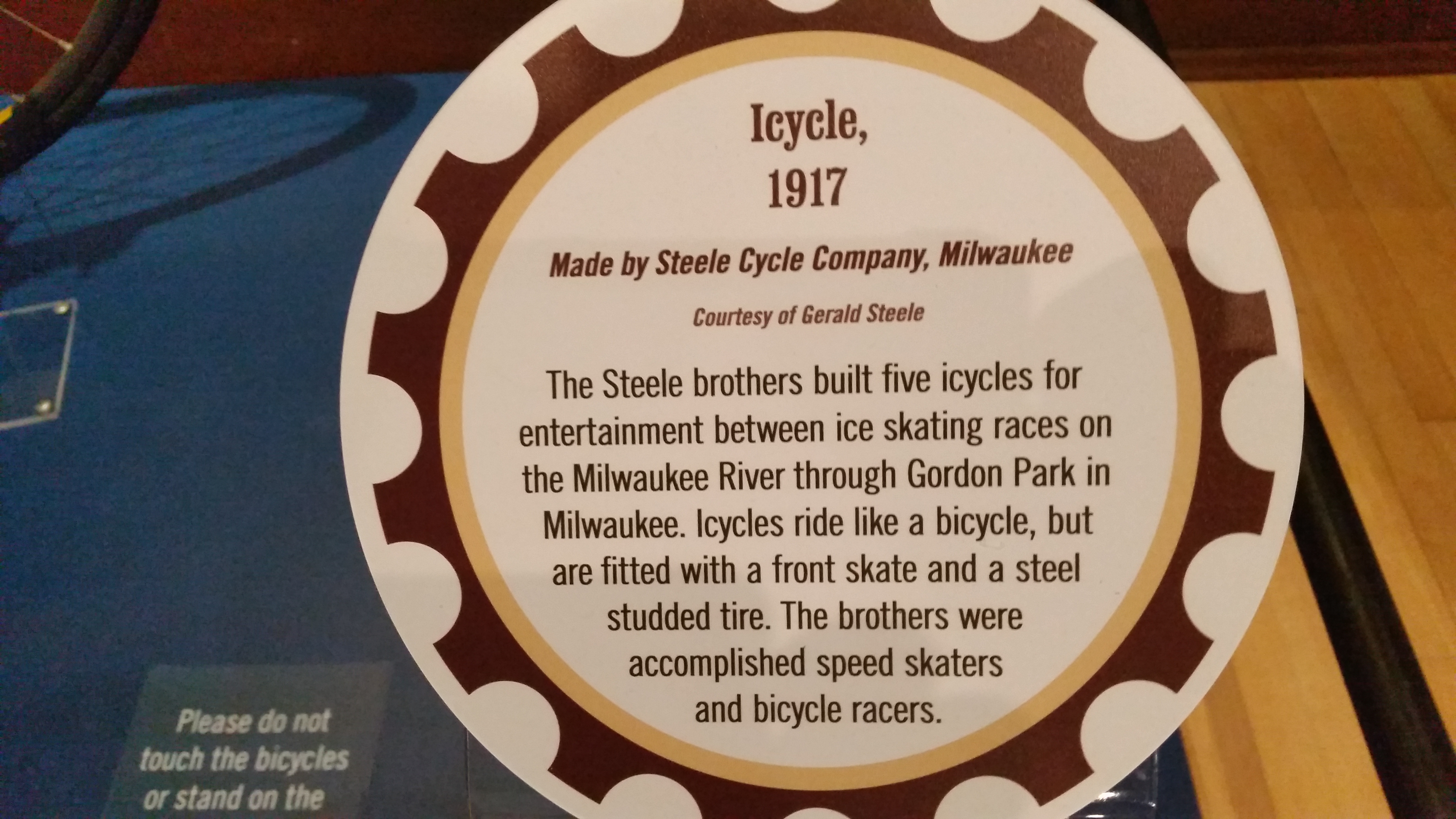 Photograph of Icycle museum placard, take at the History Museum at the Castle in Appleton, Wisconsin.